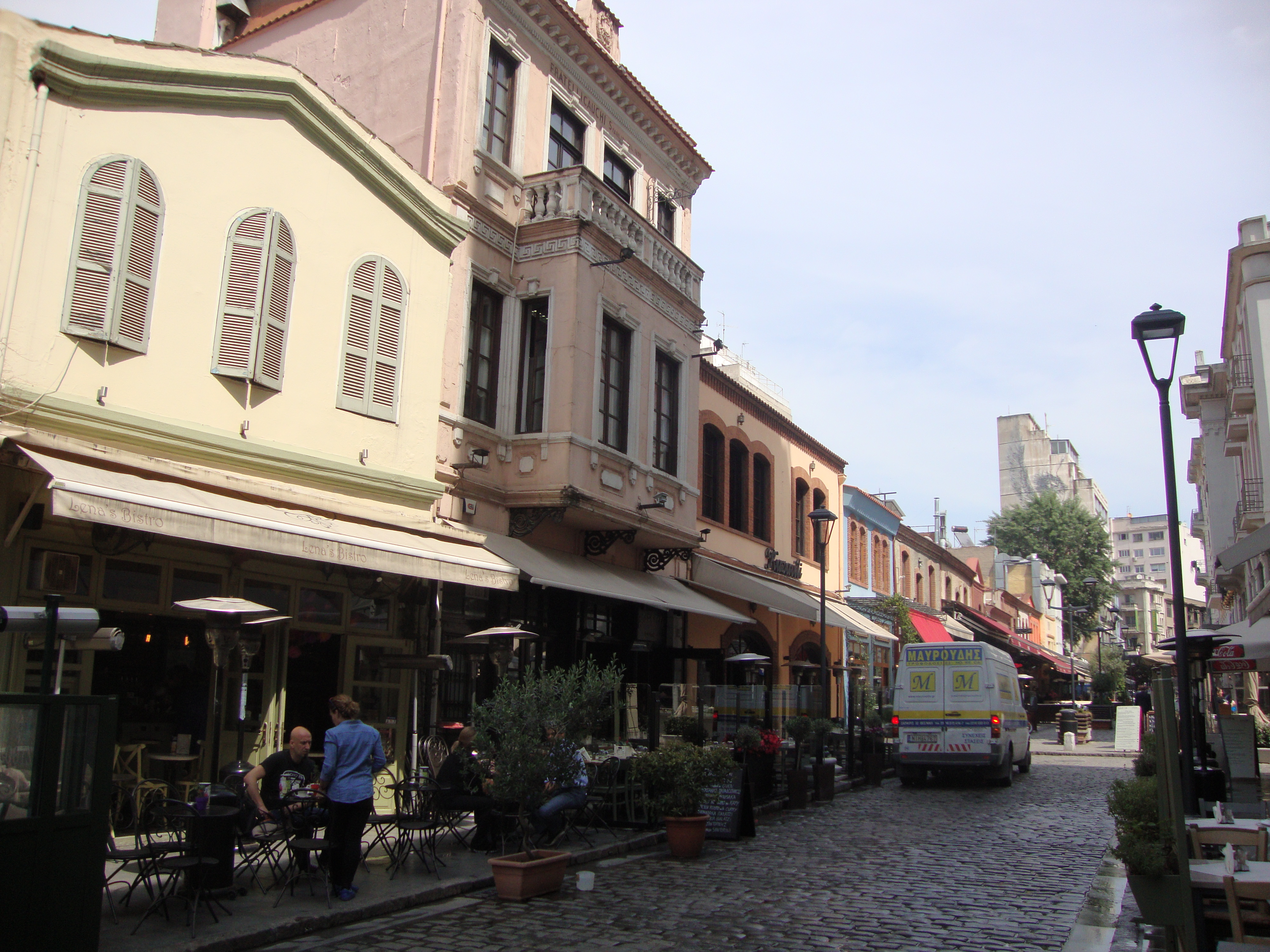 Thessalonikki, Greece